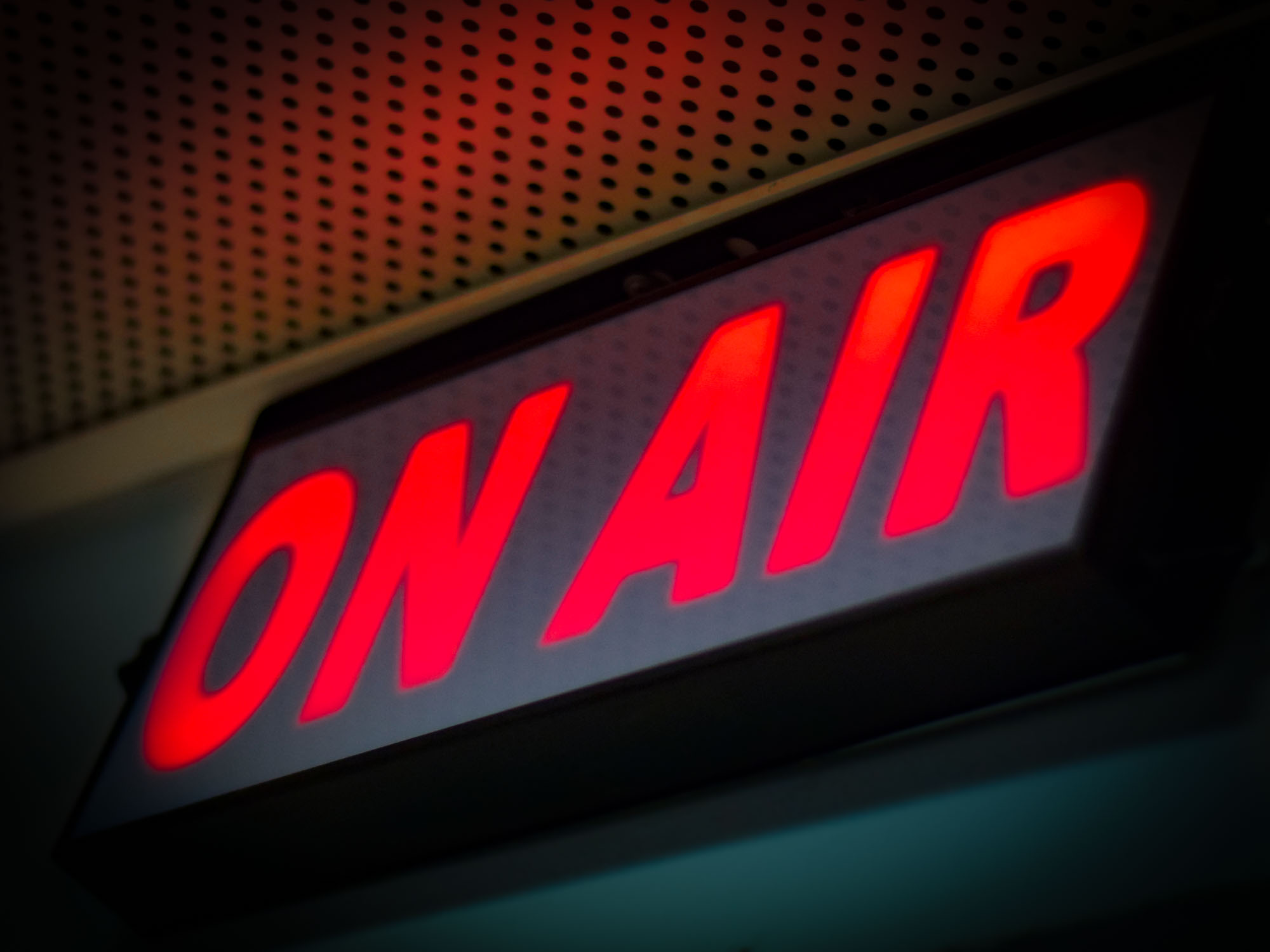 On Air sign studio recording electronic signal